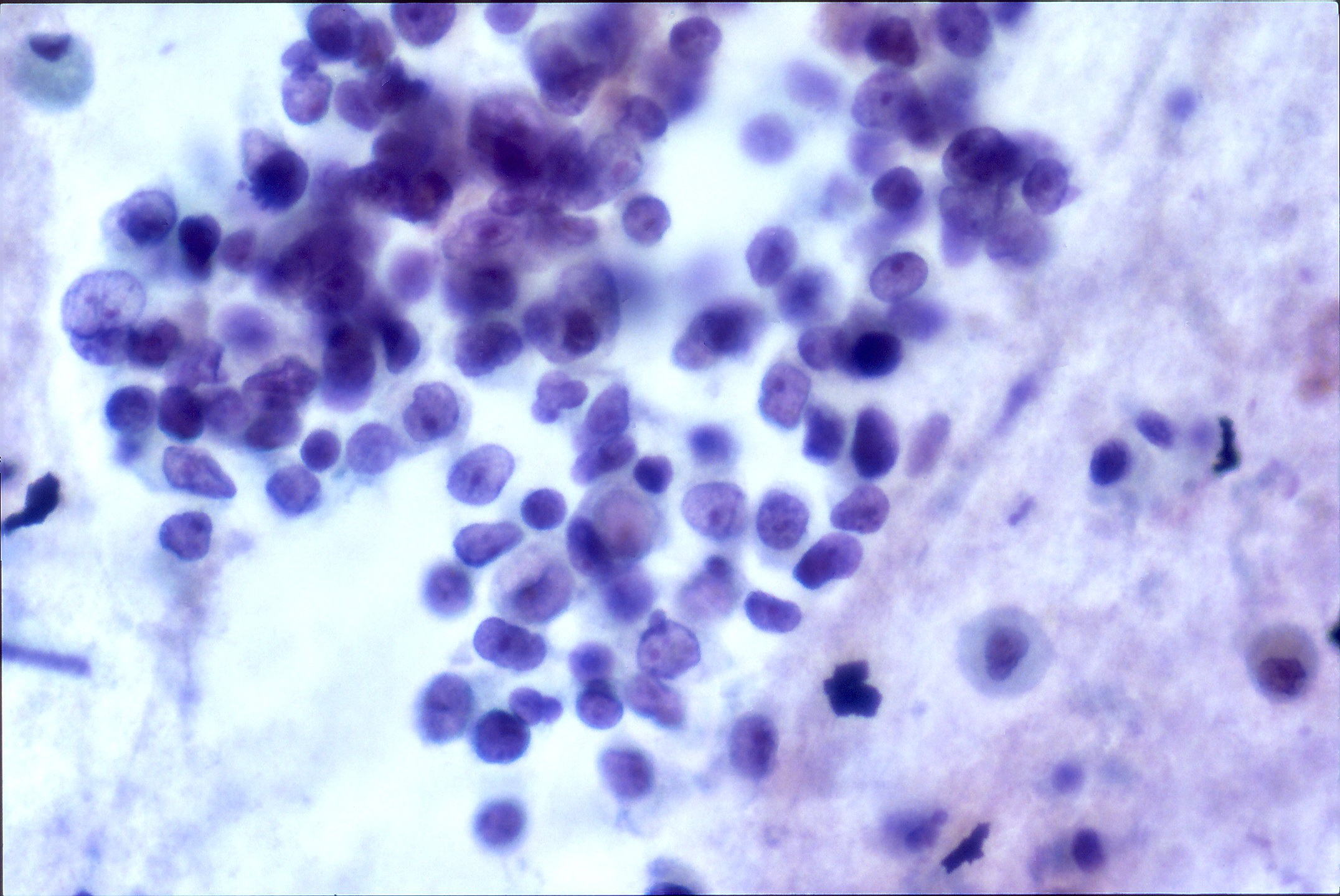 Typical appearance of small cell carcinoma in a bronchial washing specimen.